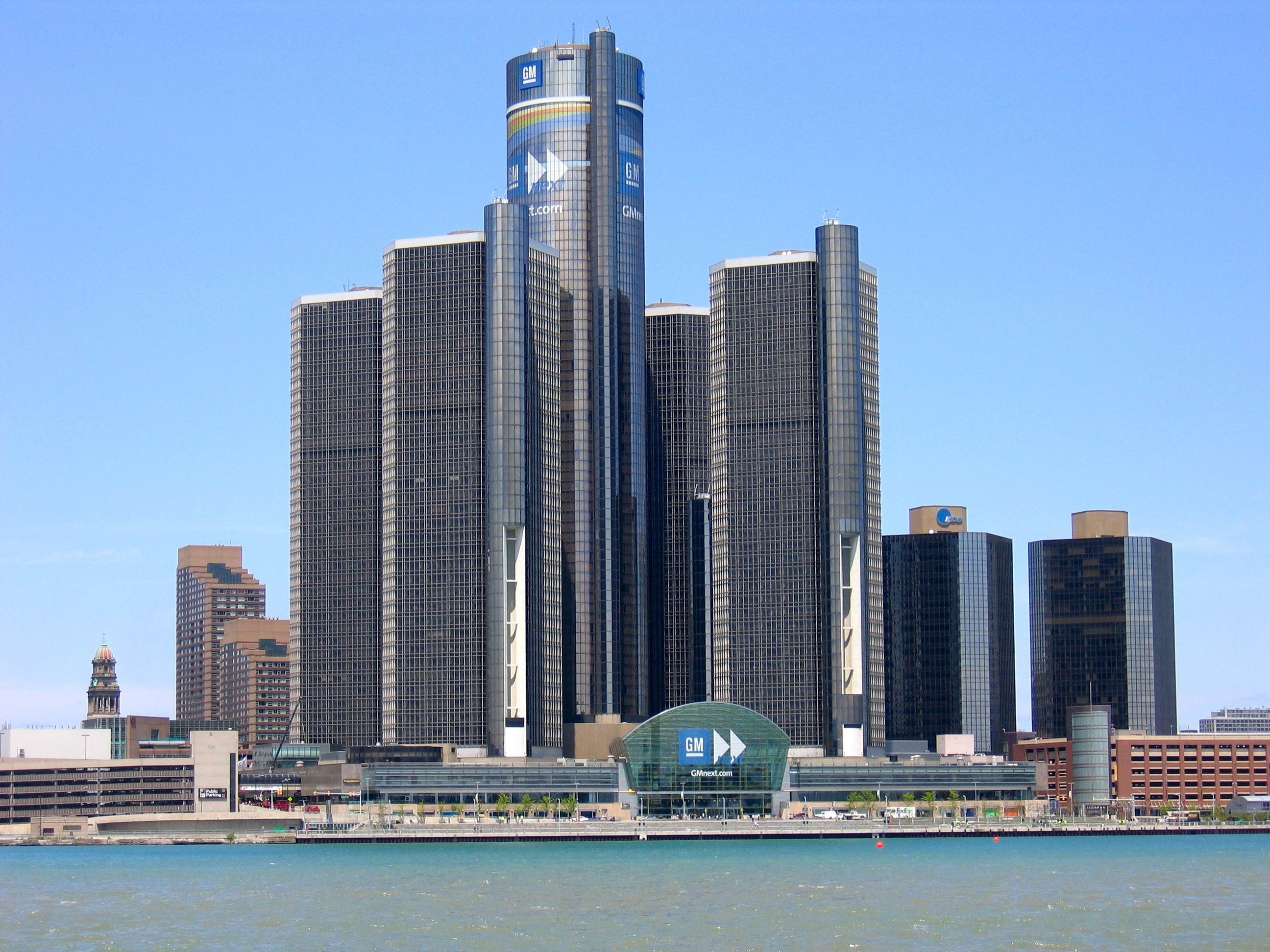 Picture of GM's headquarters in Detroit. Taken from Windsor on the Canadian side of Detroit River.